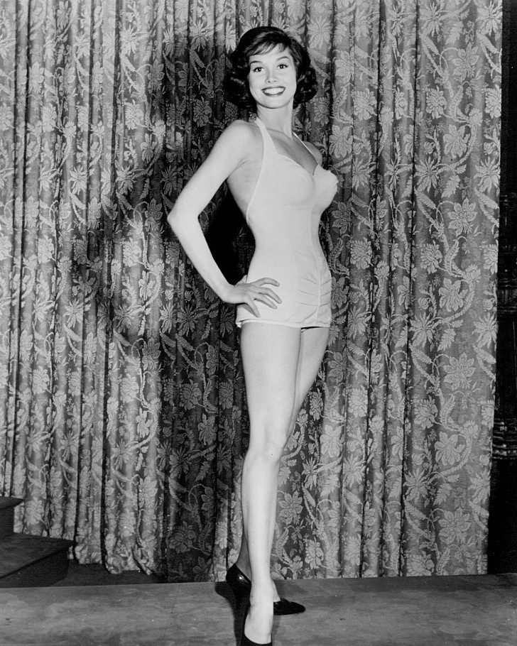 Photo of Mary Tyler Moore from the television drama series Johnny Staccato. She plays a beauty pageant contestant who hired Staccato to protect her from a threatening man. The man turns out to be her husband; the episode is The Mask of Jason.